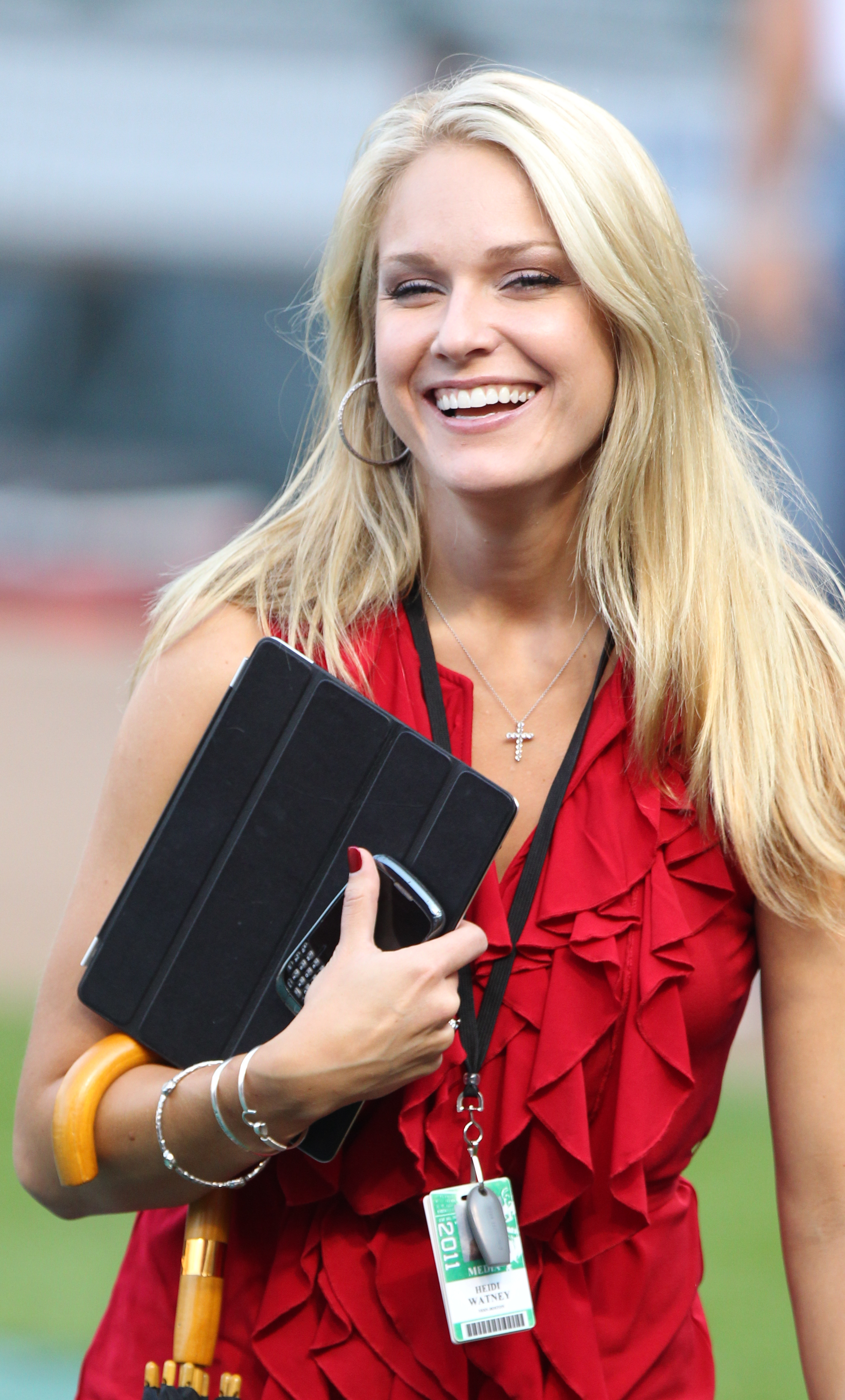 NESN reporter Heidi Watney before a game between the Boston Red Sox and Baltimore Orioles at Oriole Park at Camden Yards on September 28, 2011 in Baltimore, Maryland.